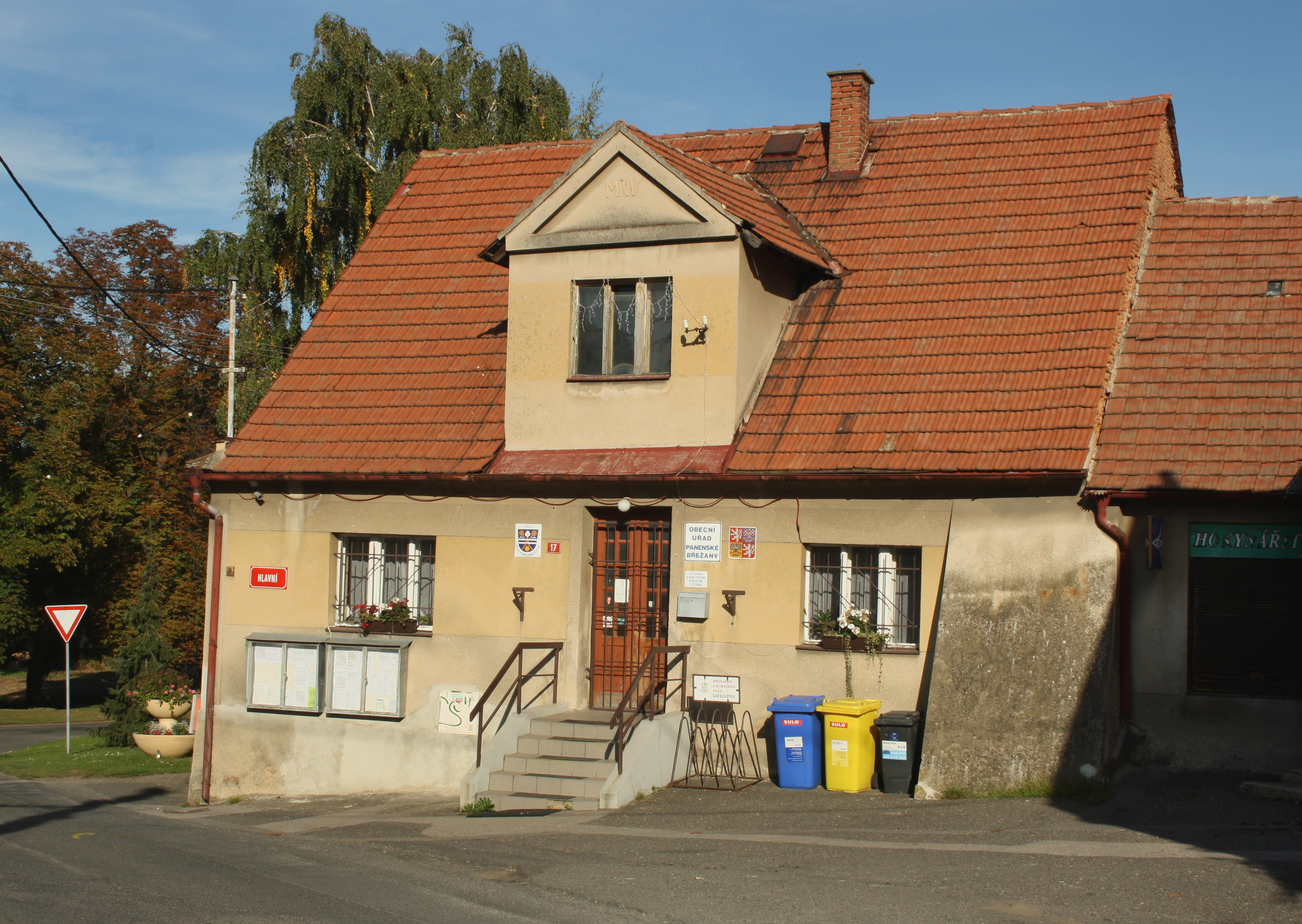 Municipal office in Panenské Břežany, Czech Republic